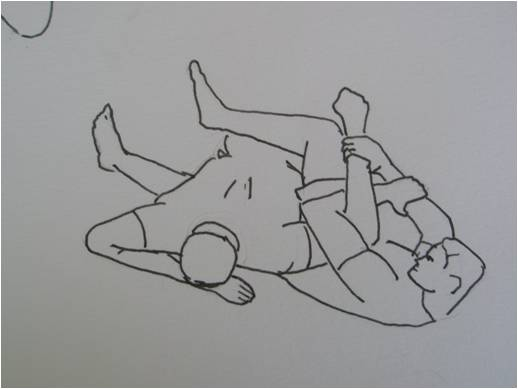 BJJ